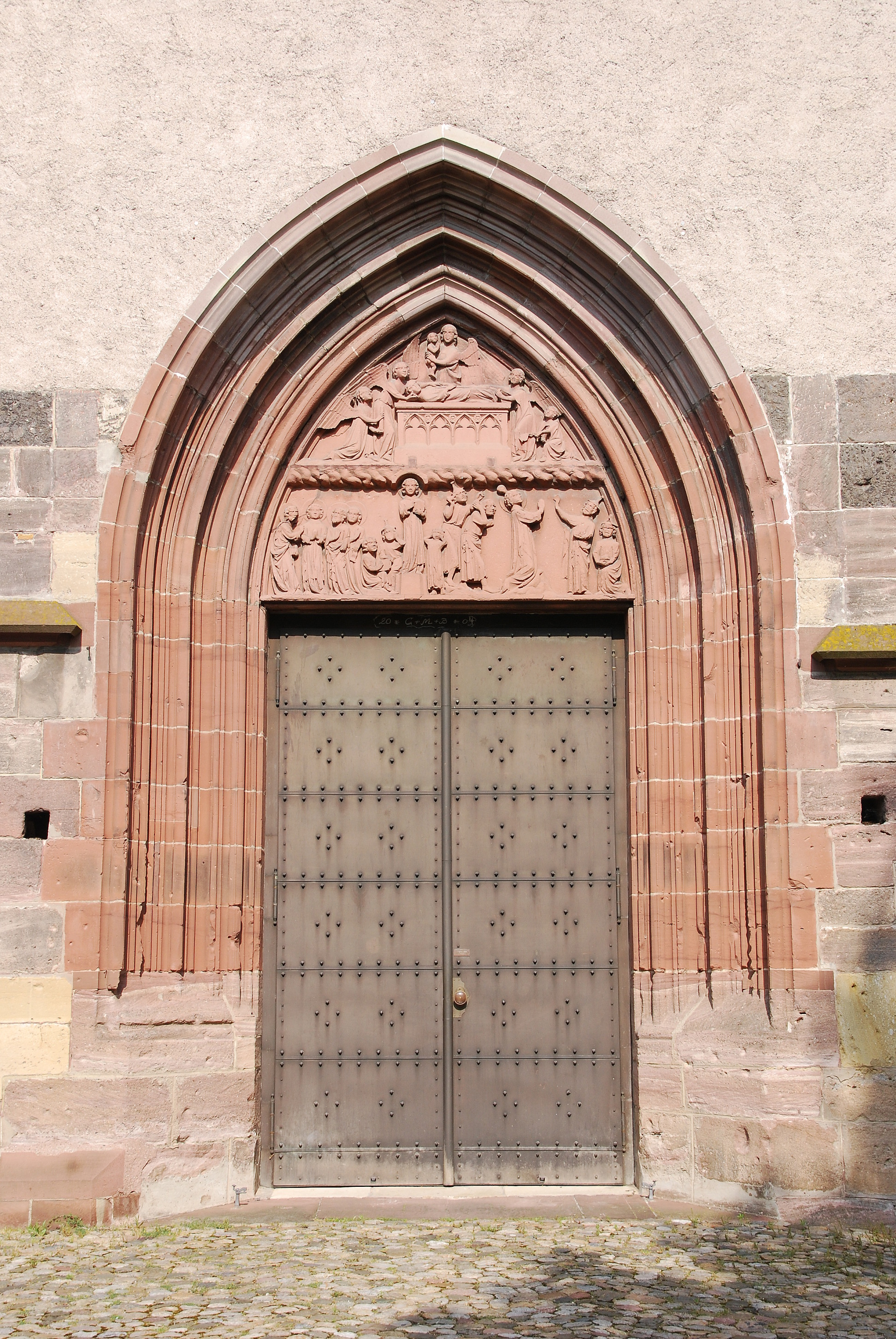 West portal of Breisach Minster with the Tympanum St. Stephan.